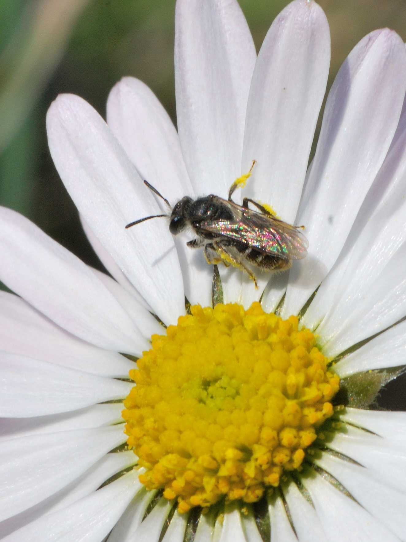 Andrena (Micrandrena) tiaretta Warncke, 1974, female resting on Bellis sylvestris, Shajarat Al Arba'in, Mount Carmel, Israel, February 6, 2011. Det. Erwin Scheuchl 2011.